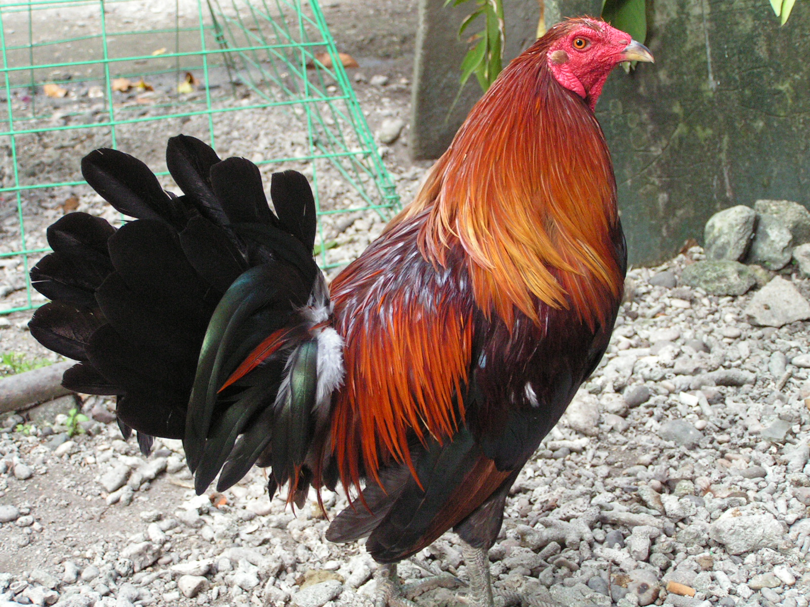 Philippine Rooster ("sunoy" in the Visayan dialect)